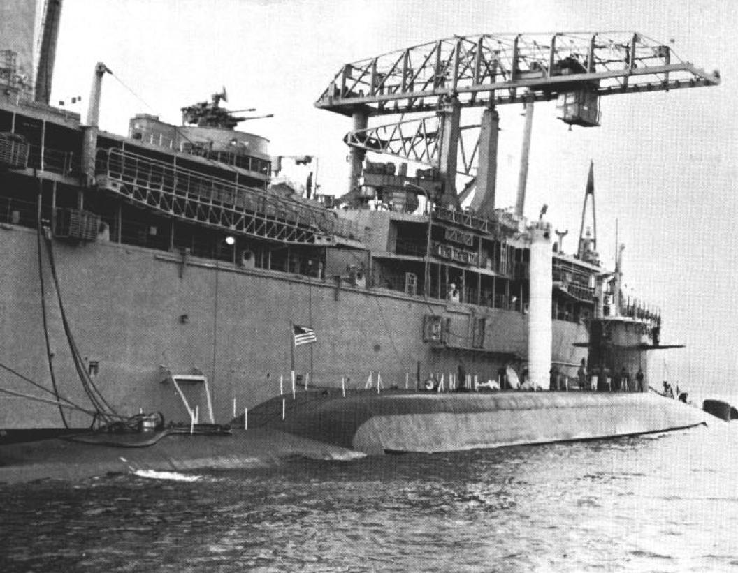 The U.S. Navy submarine tender USS Hunley (AS-31) offloads an UGM-27 Polaris missile from the ballistic missile submarine USS Thomas A. Edison (SSBN-610) at Holy Loch, Scotland (UK).